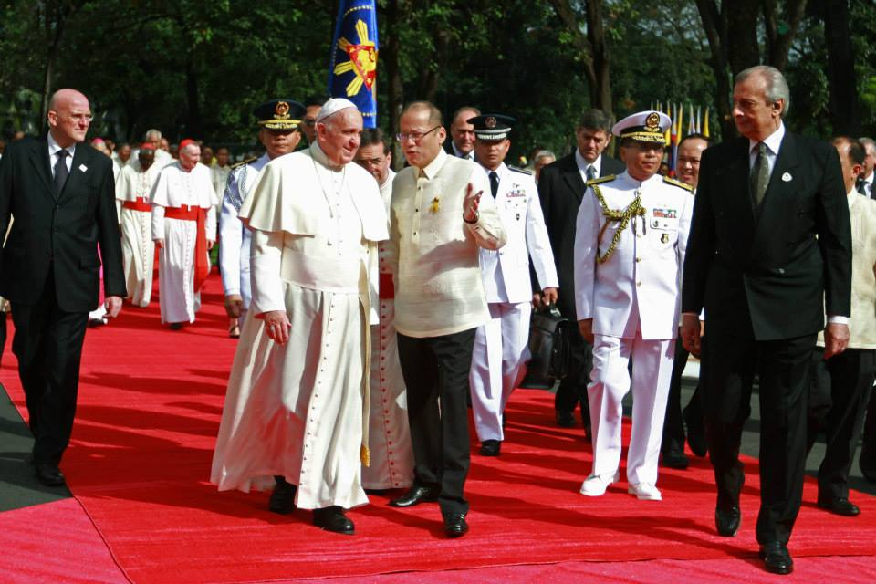 President Benigno S. Aquino III guides His Holiness Pope Francis towards the Palace Main Lobby of the Malacañan Palace during the welcome ceremony for the State Visit and Apostolic Journey to the Republic of the Philippines on Friday (January 16, 2015)